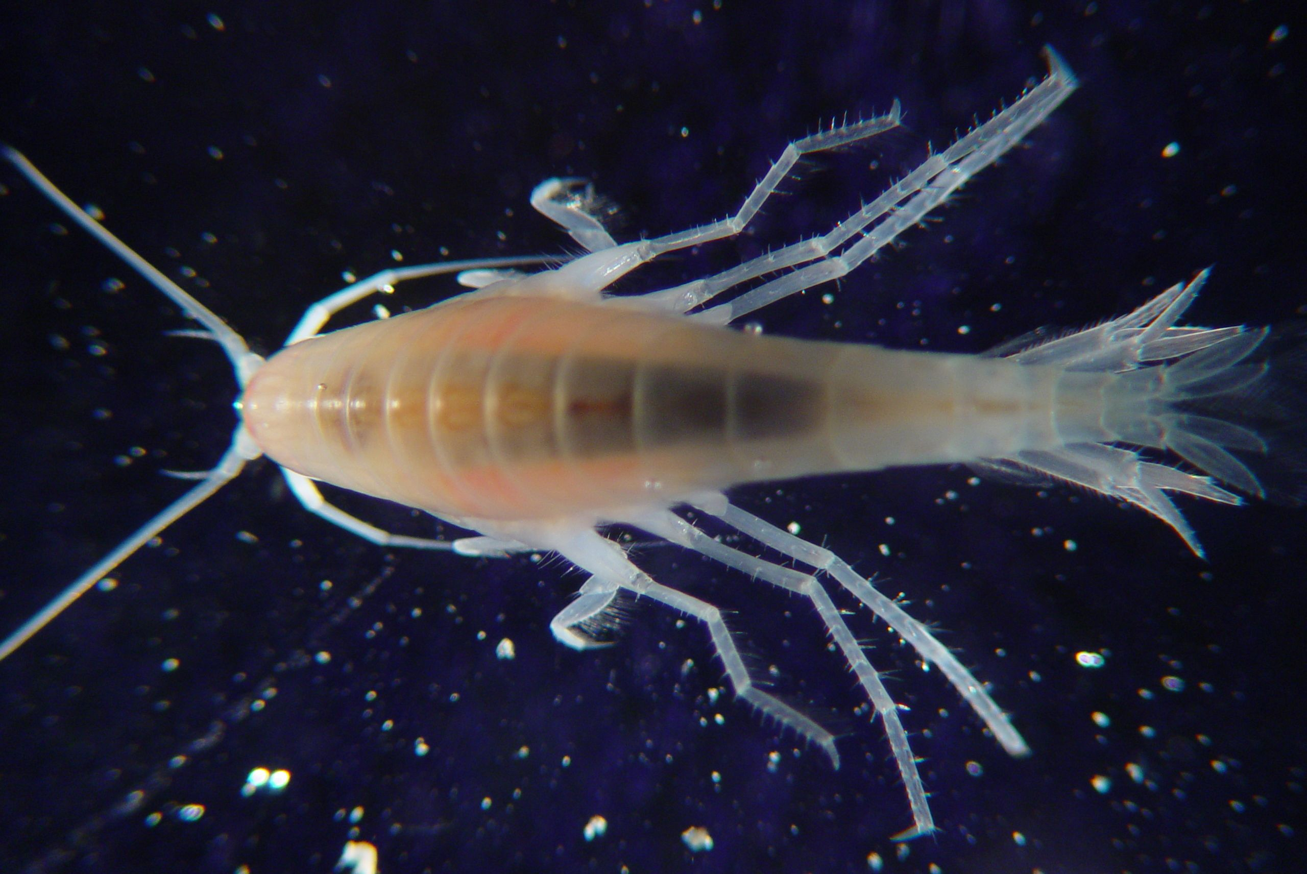 Florida Deep Coral Expedition 2005. The dorsal (top) view of a newly discovered amphipod living in a commensal relationship with the bamboo coral Keratoisis flexibilis.